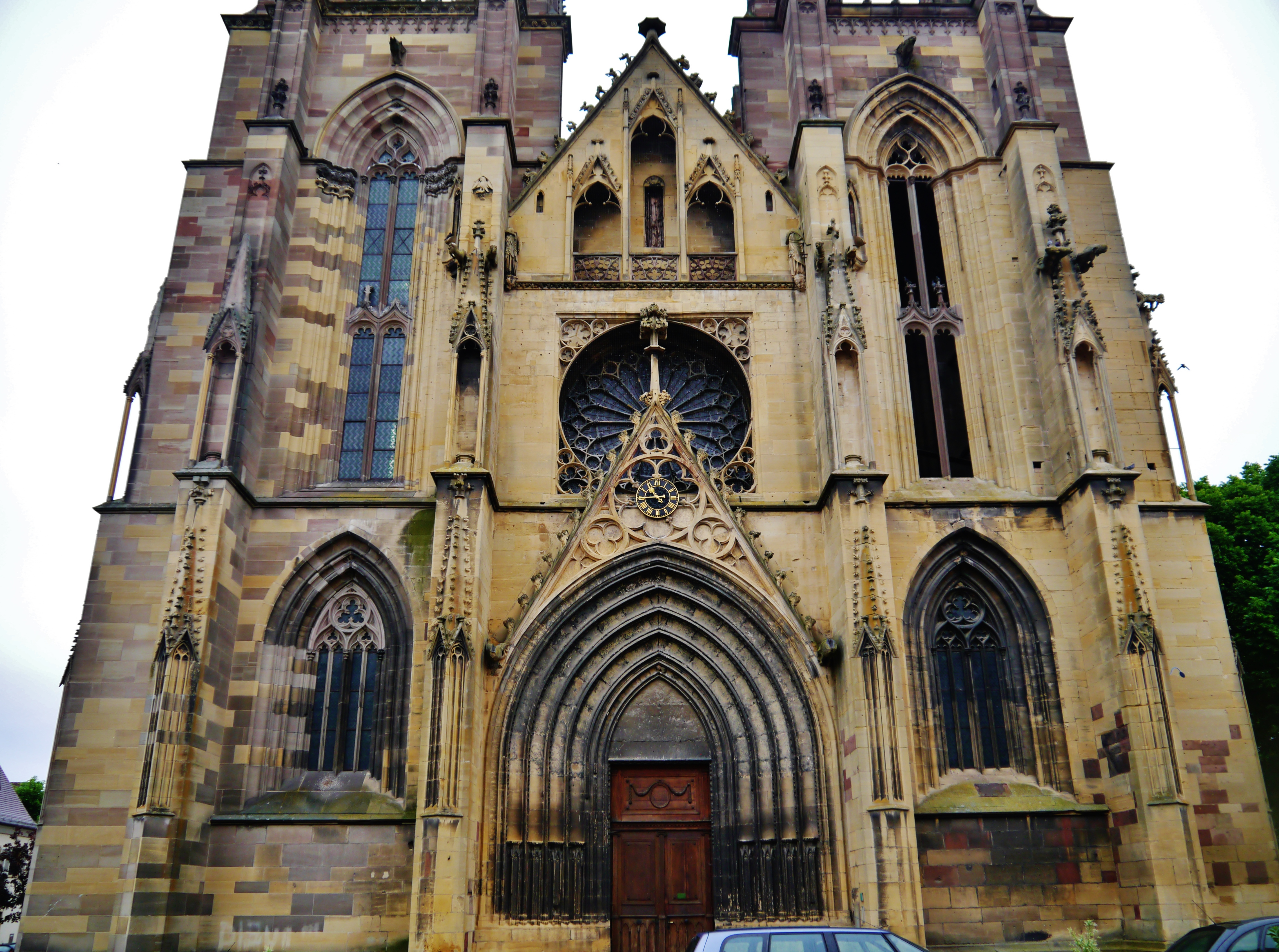 Facade of Our Lady Assumption, Rouffach, Alsace, France